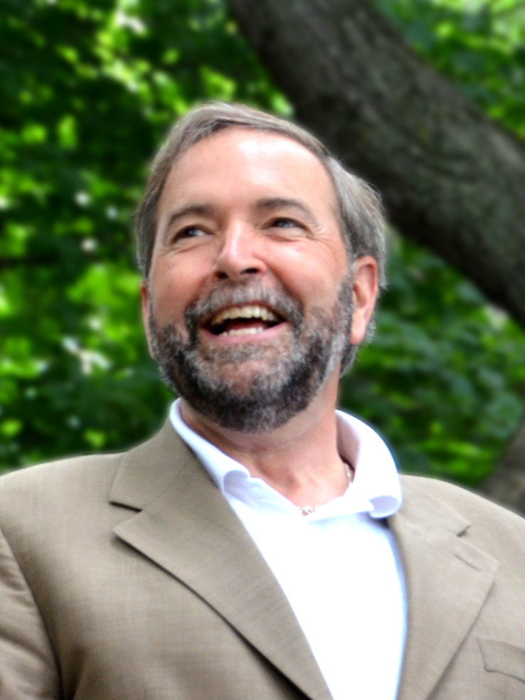 Thomas Mulcair, then leader of the Official Opposition in Canada, at an NDP picnic on June 25, 2012, at Beaver Lake in the Mount Royal Park, in Montreal.